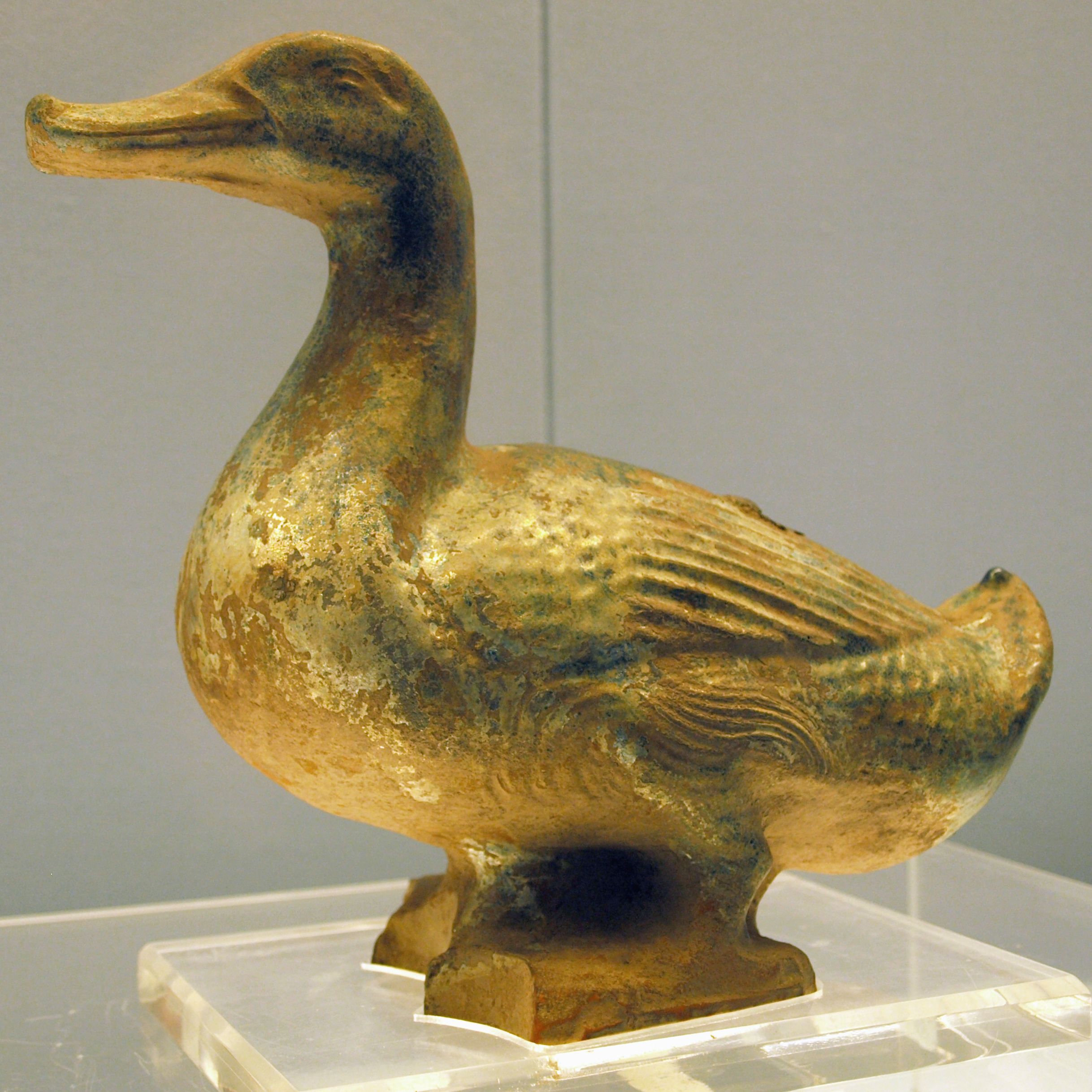 Low-fired green-glazed pottery figure of a duck from the time of the Eastern Han dynasty (25-220 AD). On display at the Shanghai Museum.